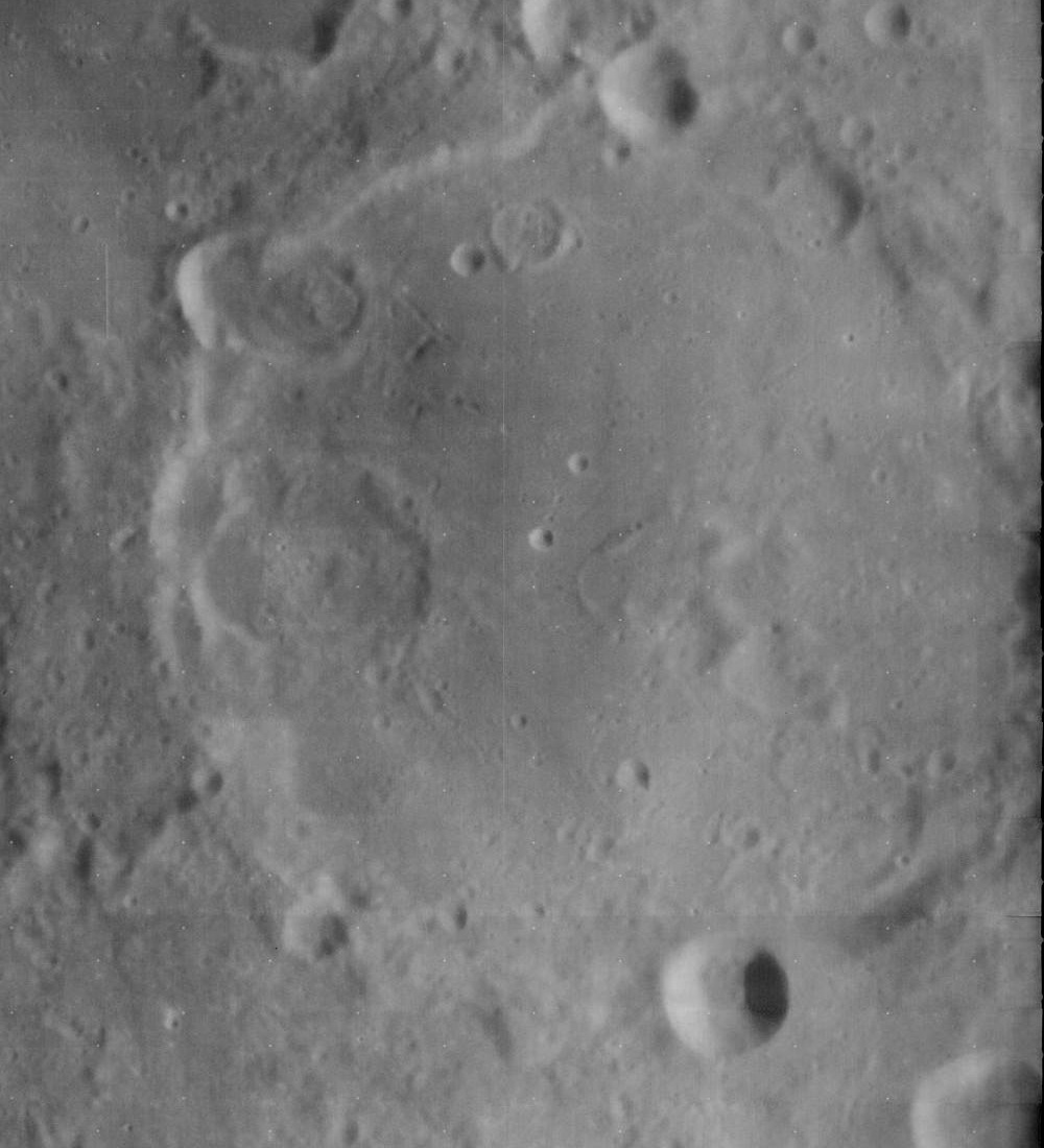 Messala crater, on the moon. Brightness and contrast adjusted from original.